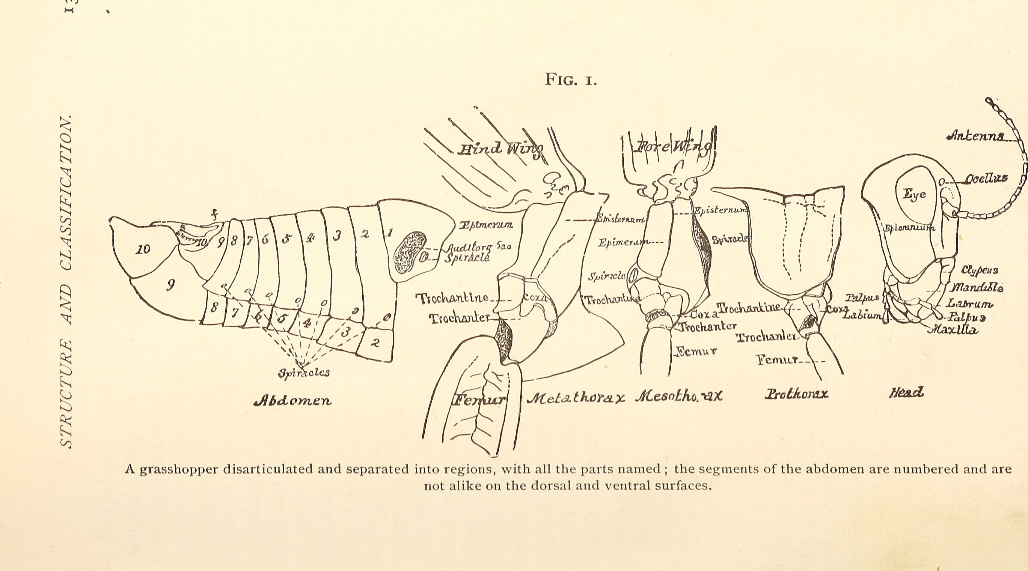 Title: Economic entomology for the farmer.. Year: 1896 (1890s) Authors: Smith, John B. (from old catalog) Subjects: Publisher: (n. p. ) Text Appearing Before Image: ' Text Appearing After Image: '